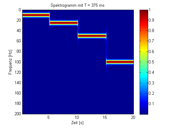 For the english version see STFT colored spectrogram 725ms.png